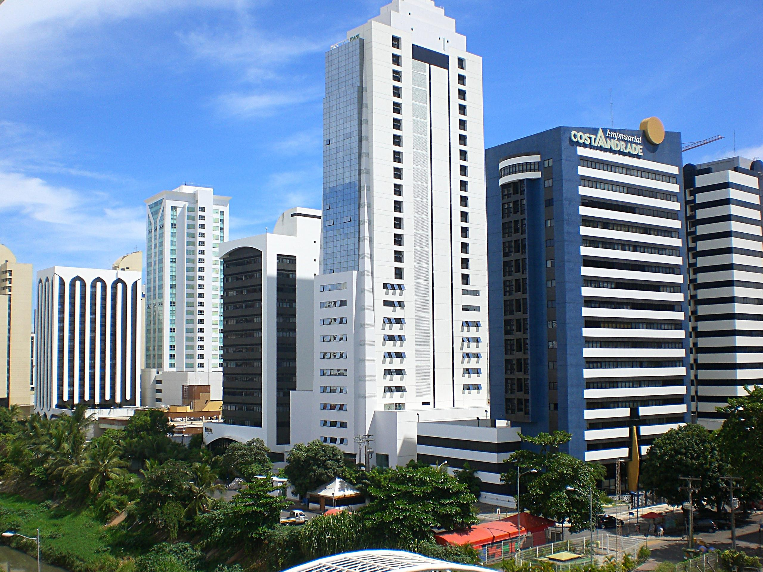 Buildings in the Central Business Center of Salvador, Bahia, Brazil.